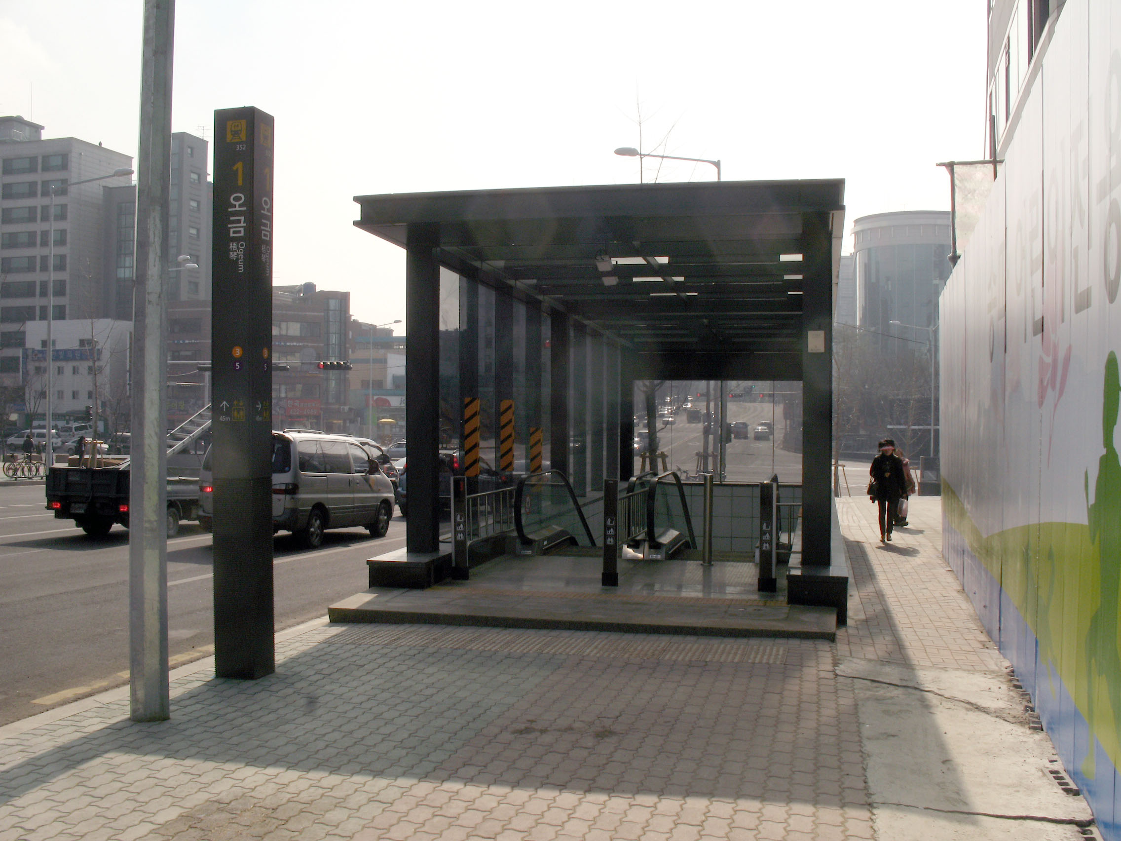 Exit 1 of Ogeum Station.